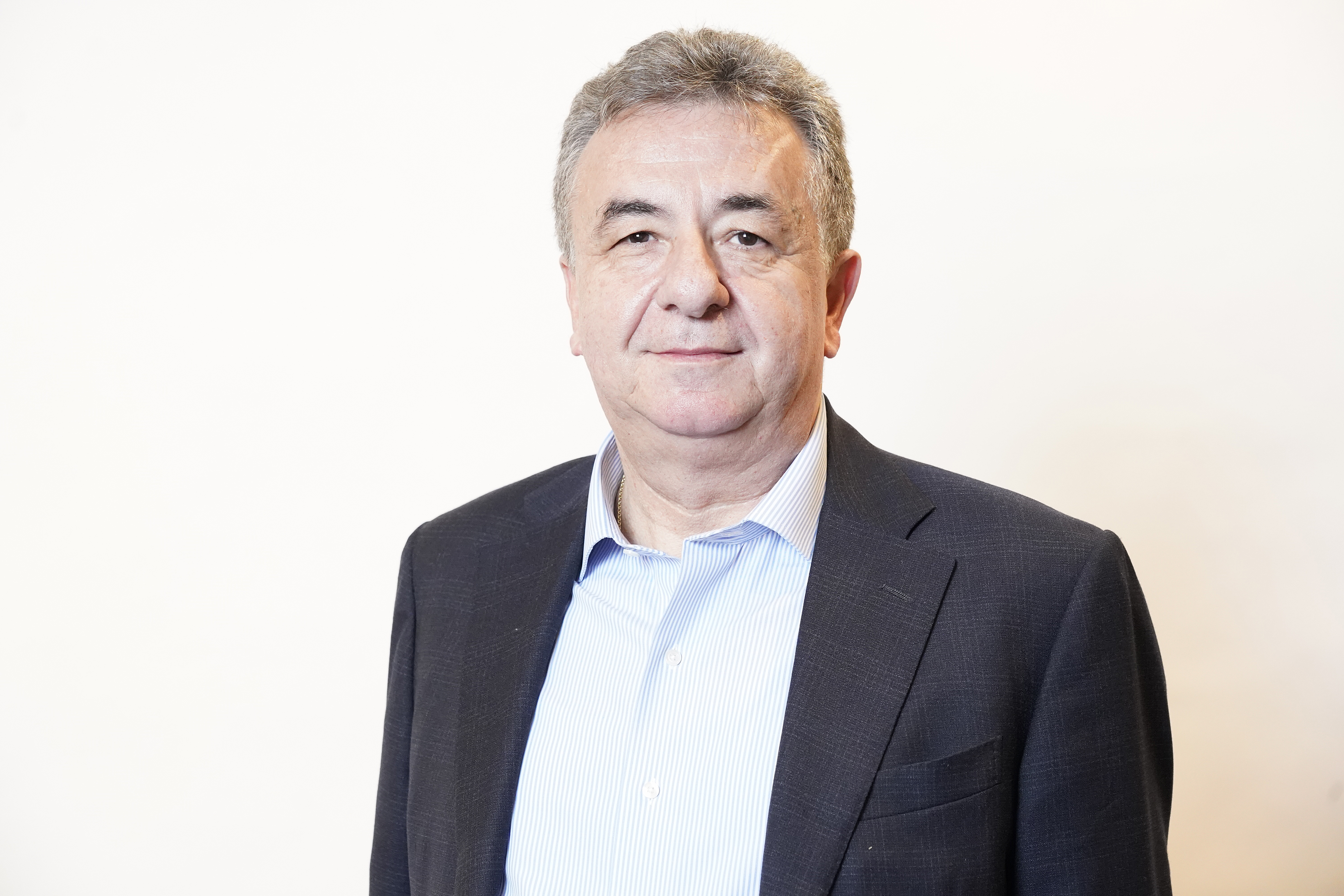 CoR Members portraits CoRPlenary © European Union Fred Guerdin